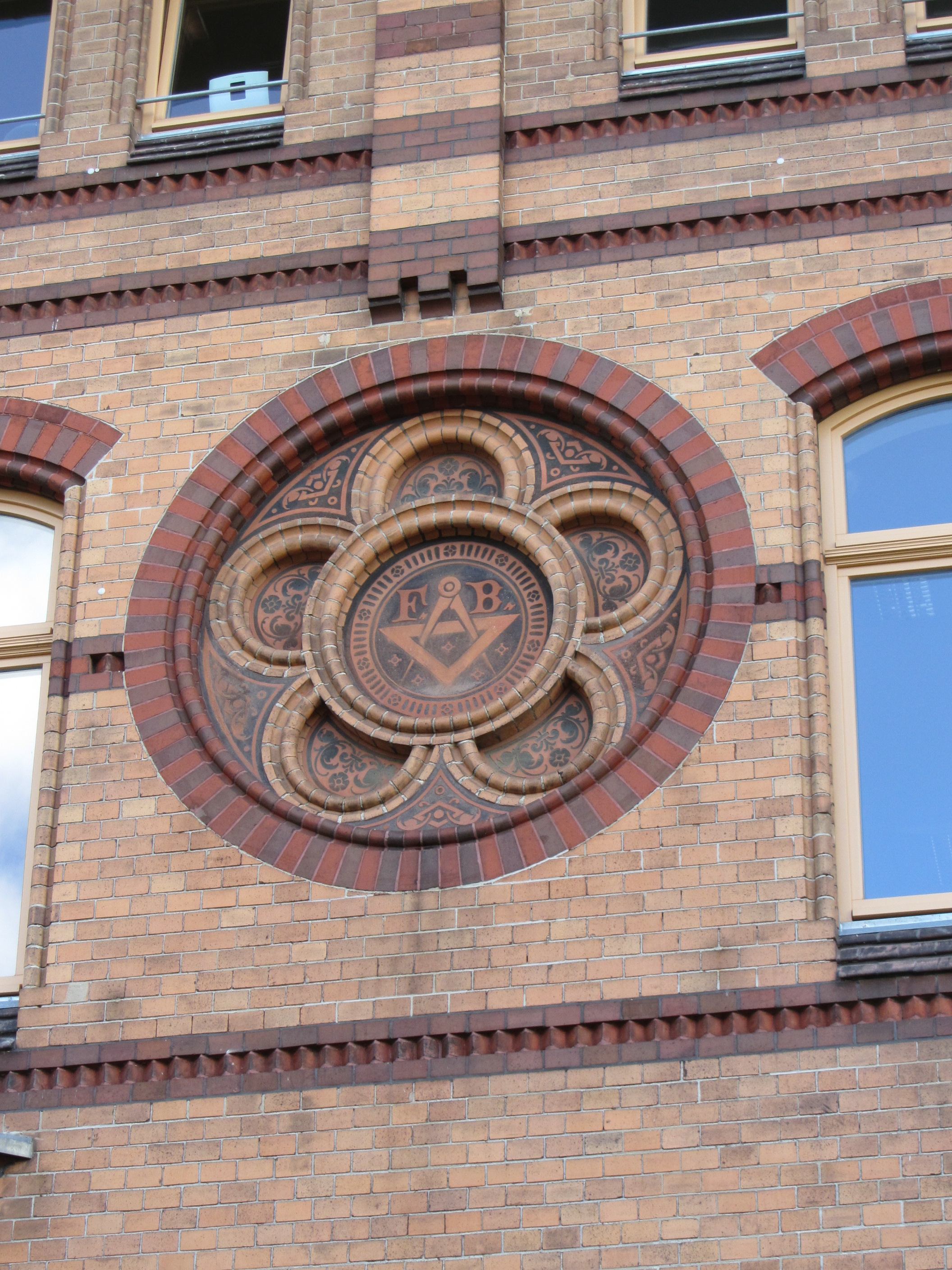 Villa Goethestraße 1 in Schwerin, Mecklenburg-Vorpommern, Germany